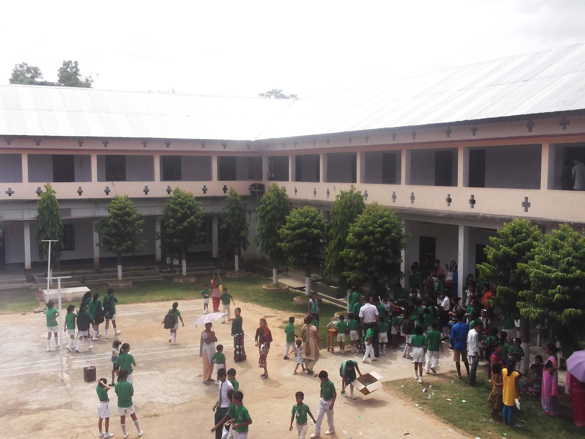 Suraj Van Verma Photographs